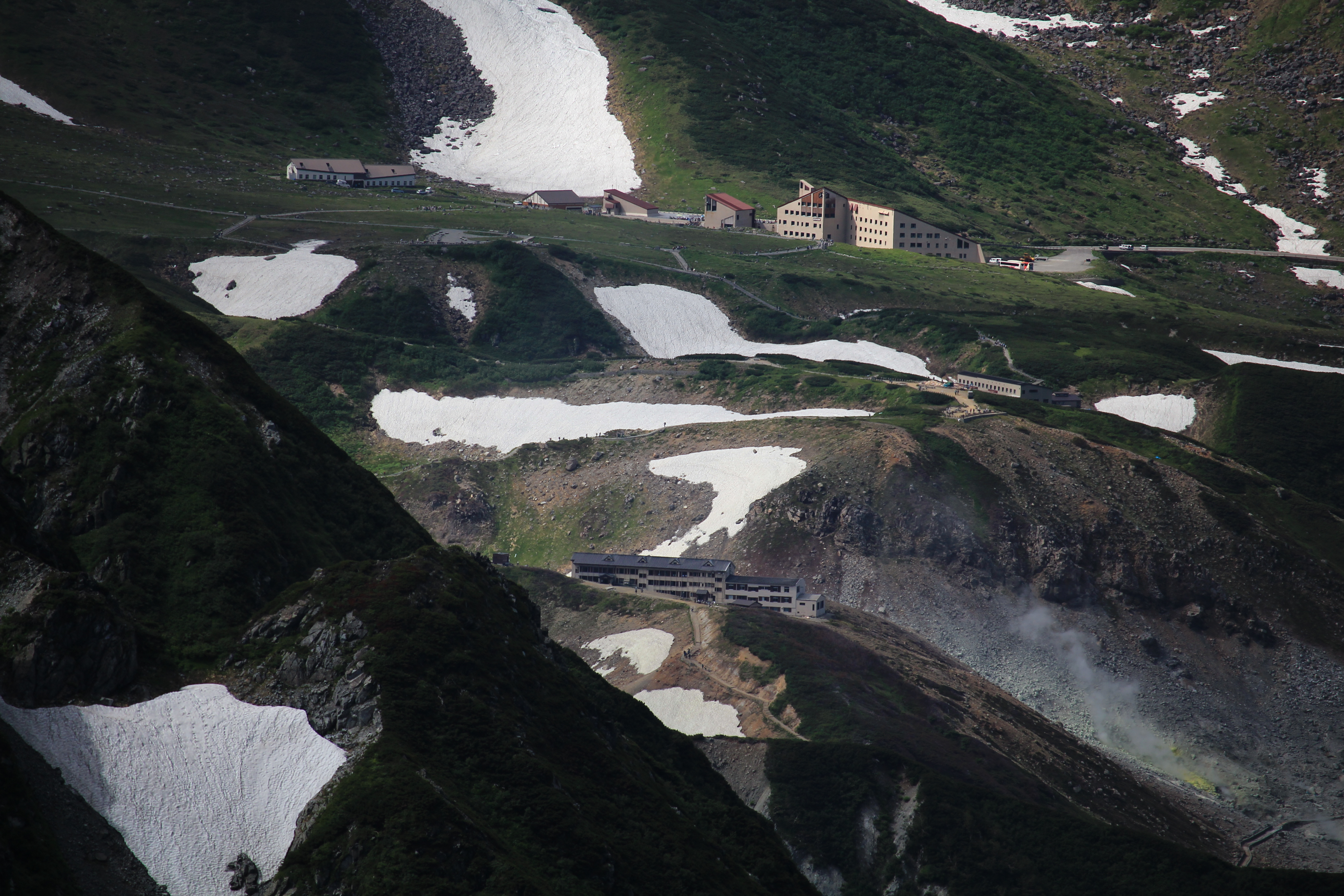 Murodo and Jigokudani seen from Hayatsuki ridge of Mount Tsurugi, in Toyama prefecture, Japan.